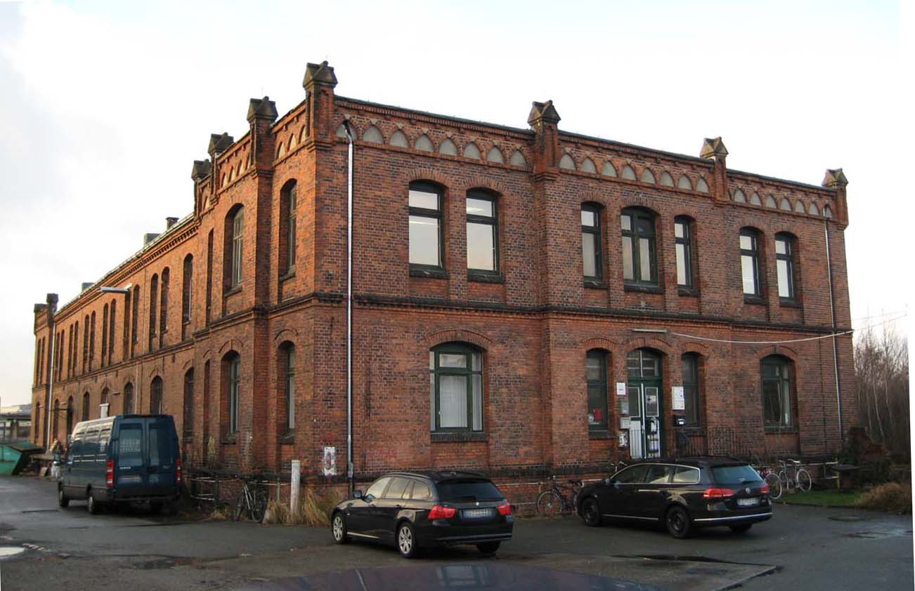 Railway Storage building in Hamburg